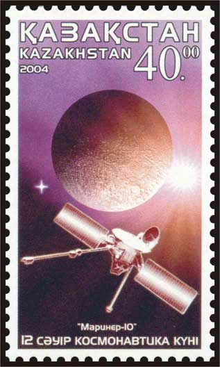 Stamp of Kazakhstan